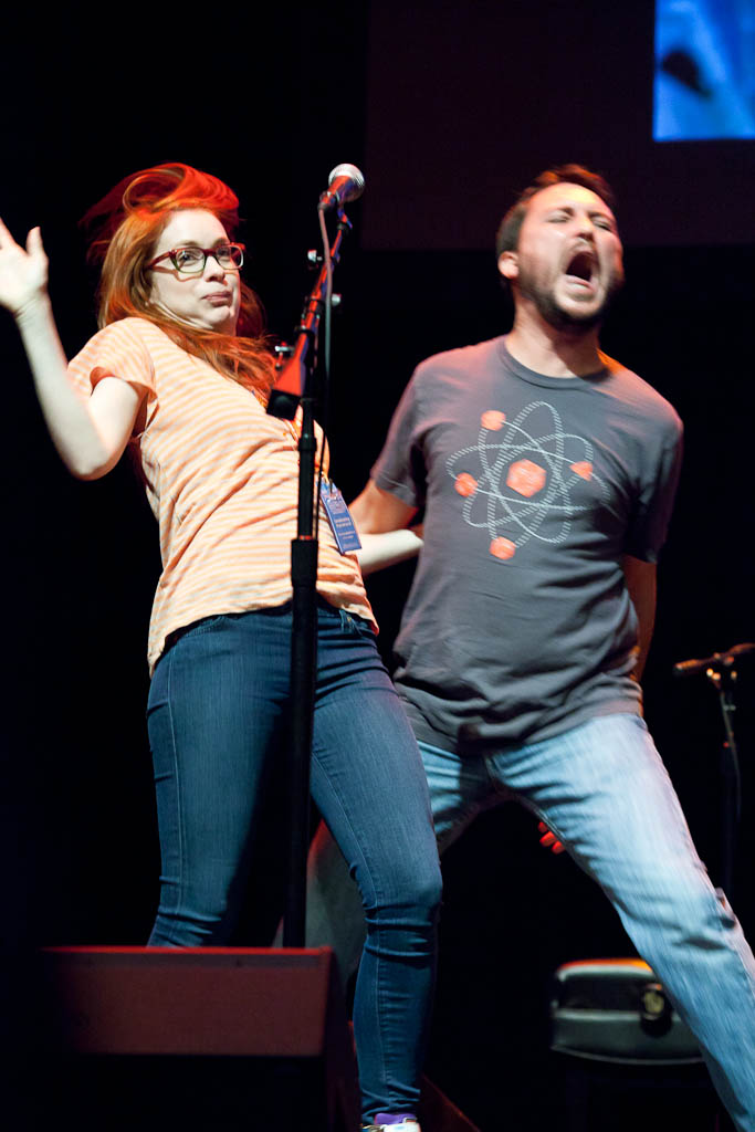 I love this picture if for no other reason than Felicia's hair in flight.